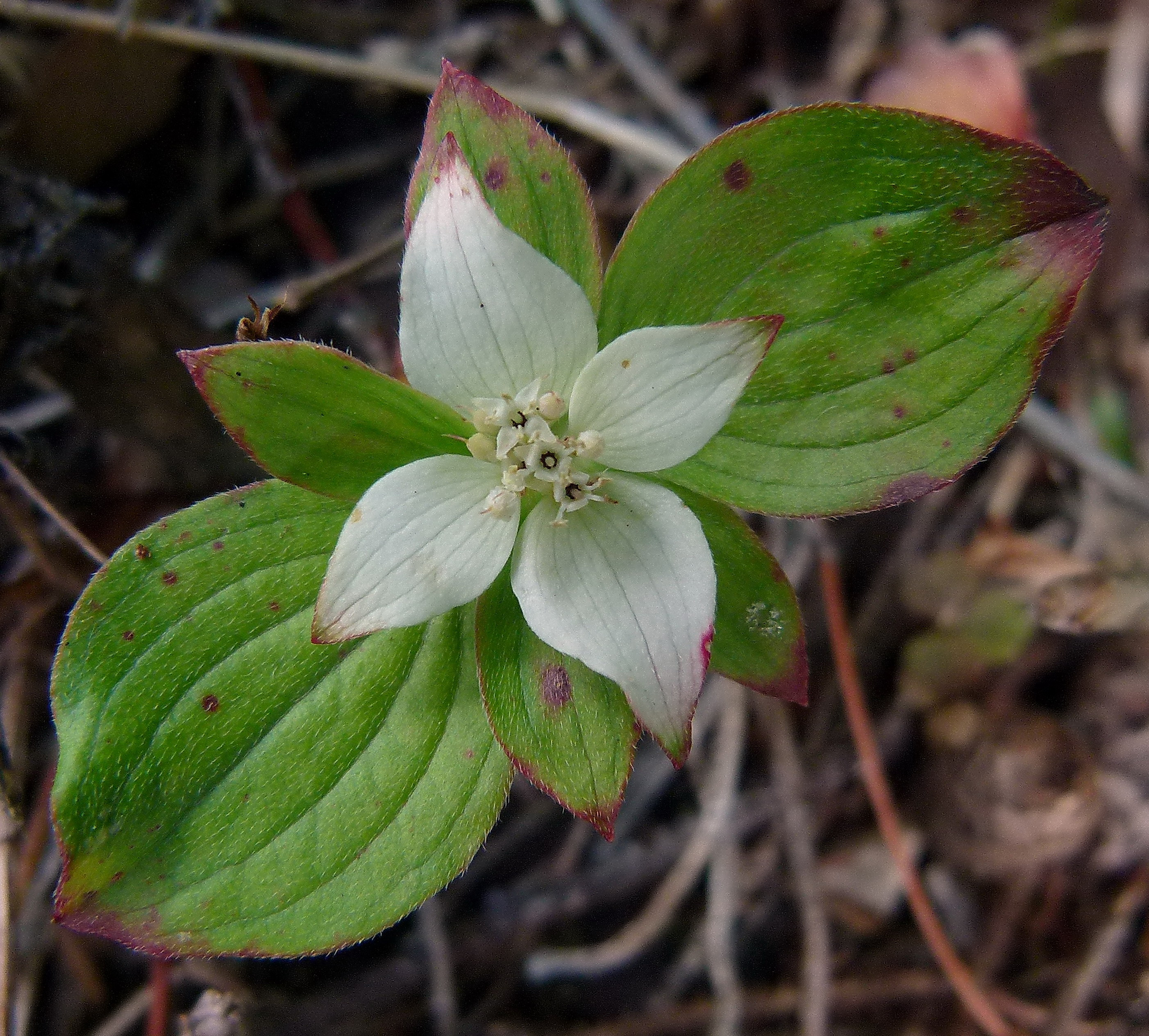 Cornus canadensis in Algonquin Provincial Park